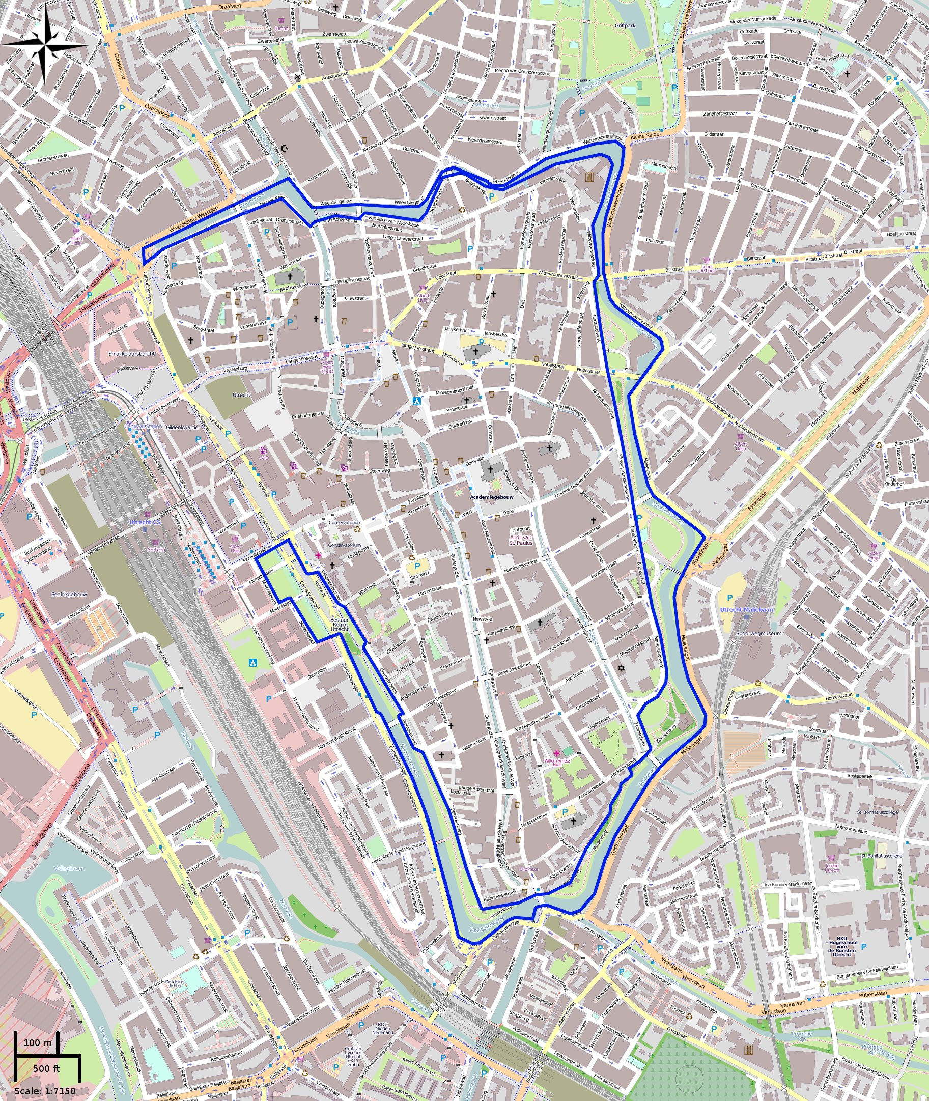 Map showing the location of the Zocherpark/singelgebied, Utrecht, Netherlands. Compiled using data from OpenStreetMap and the local government of Utrecht. A more detailed map can be found here (p. 30)